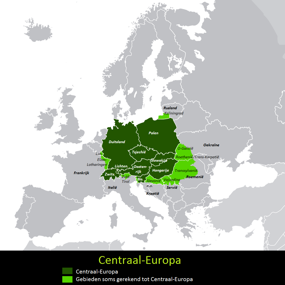 Map of Central Europe (Dutch)